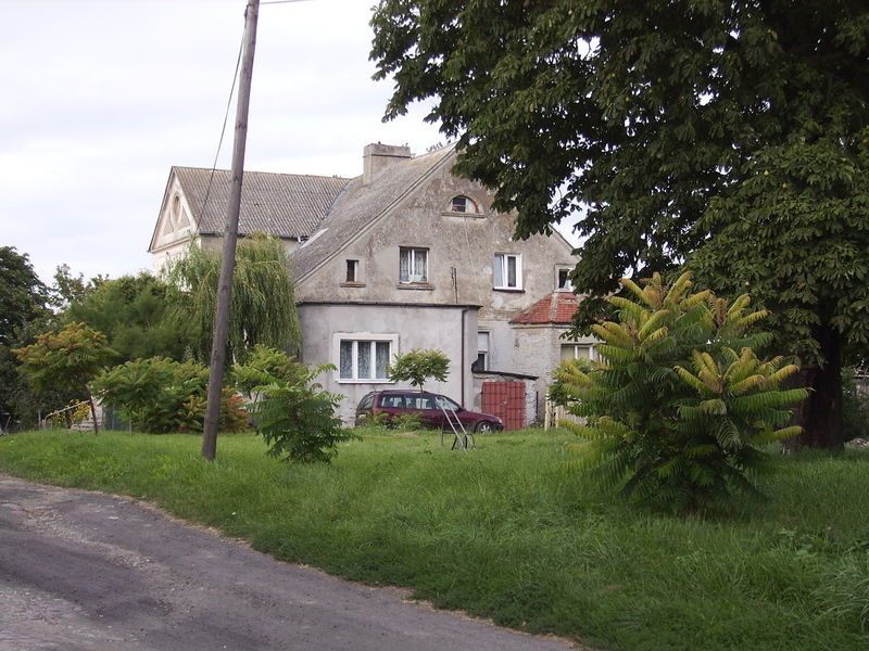 Manor in Nowy Dwór Królewski